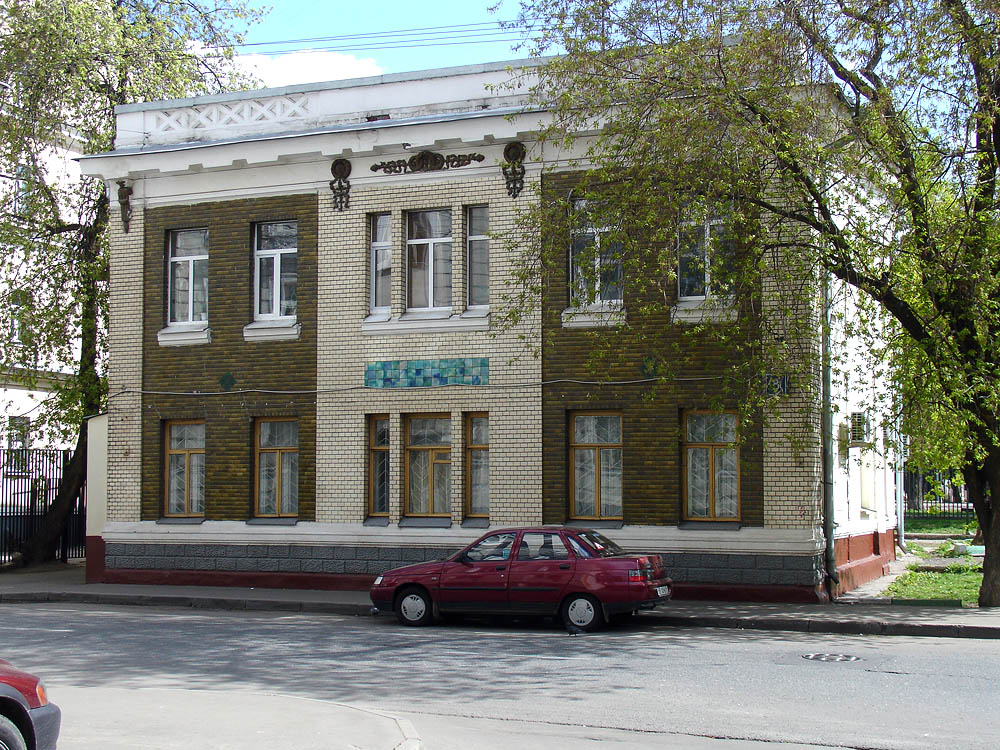 Tovarischesky Lane, Moscow